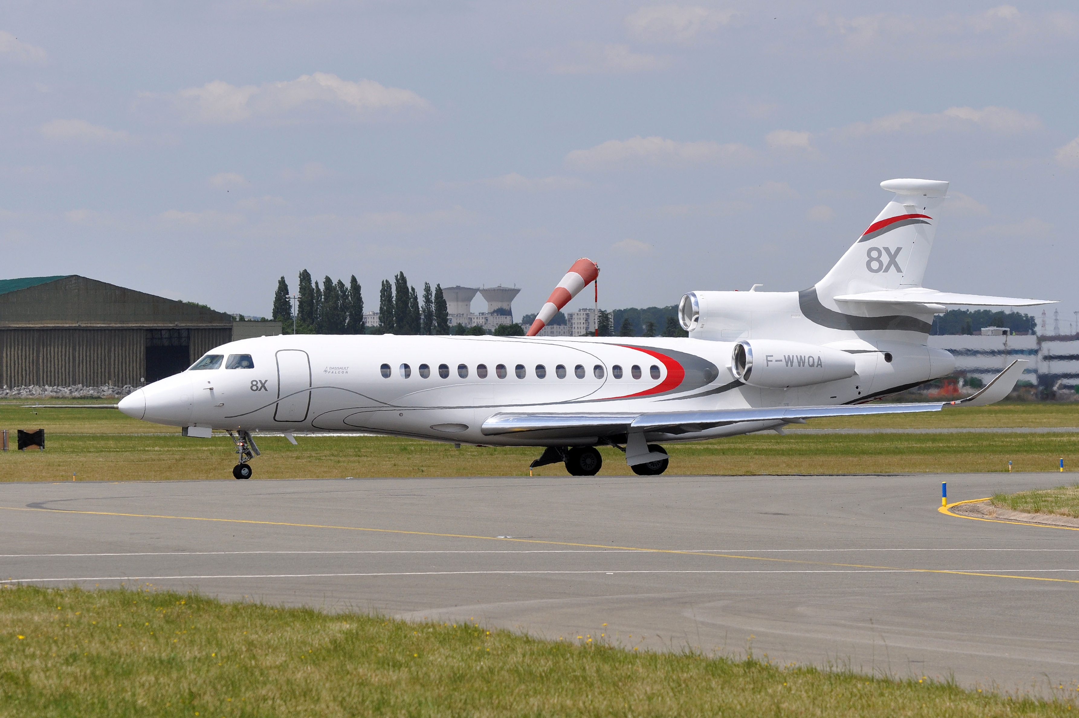 Dassault Falcon 8X at PAS15